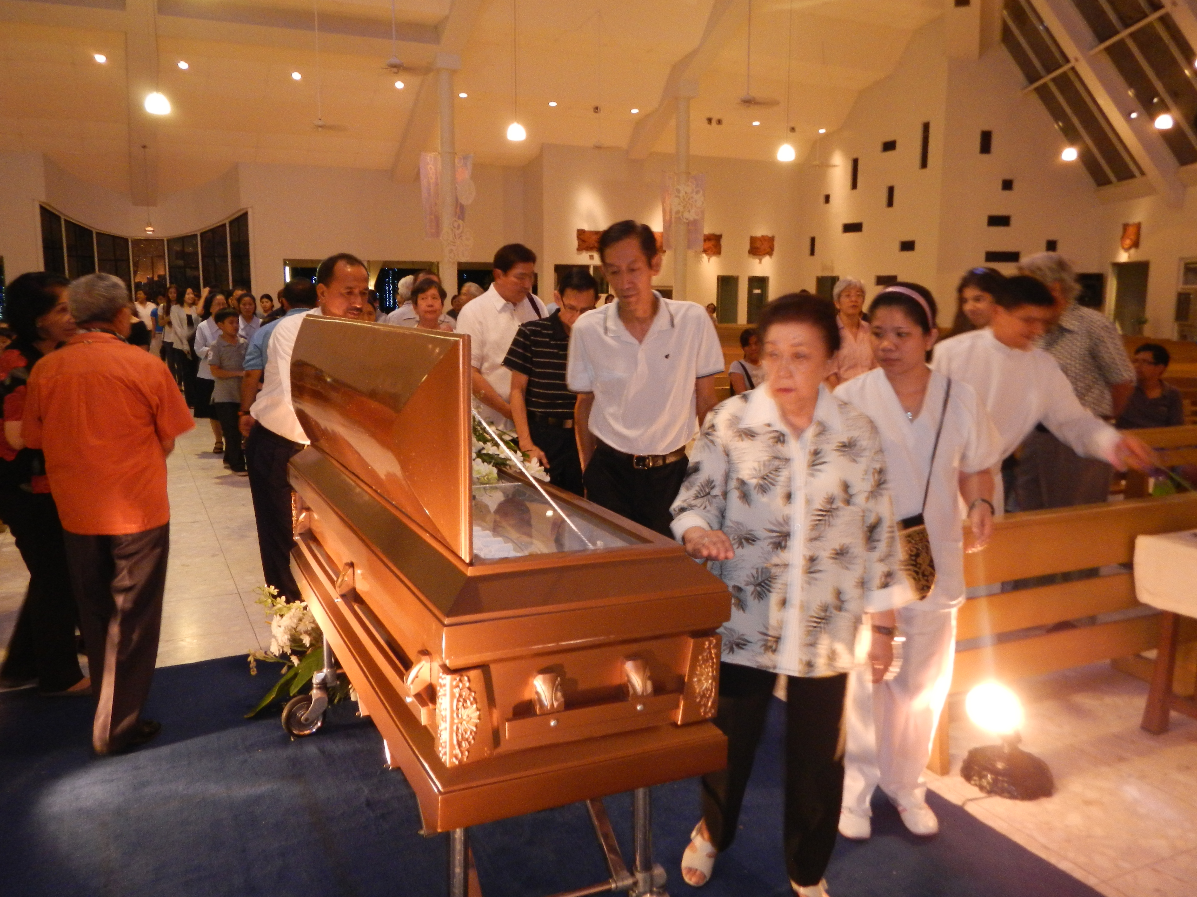 James Bertram Reuter, S.J.[1] Ateneo de Manila University [2] Church of the Gesù (Philippines) [3]